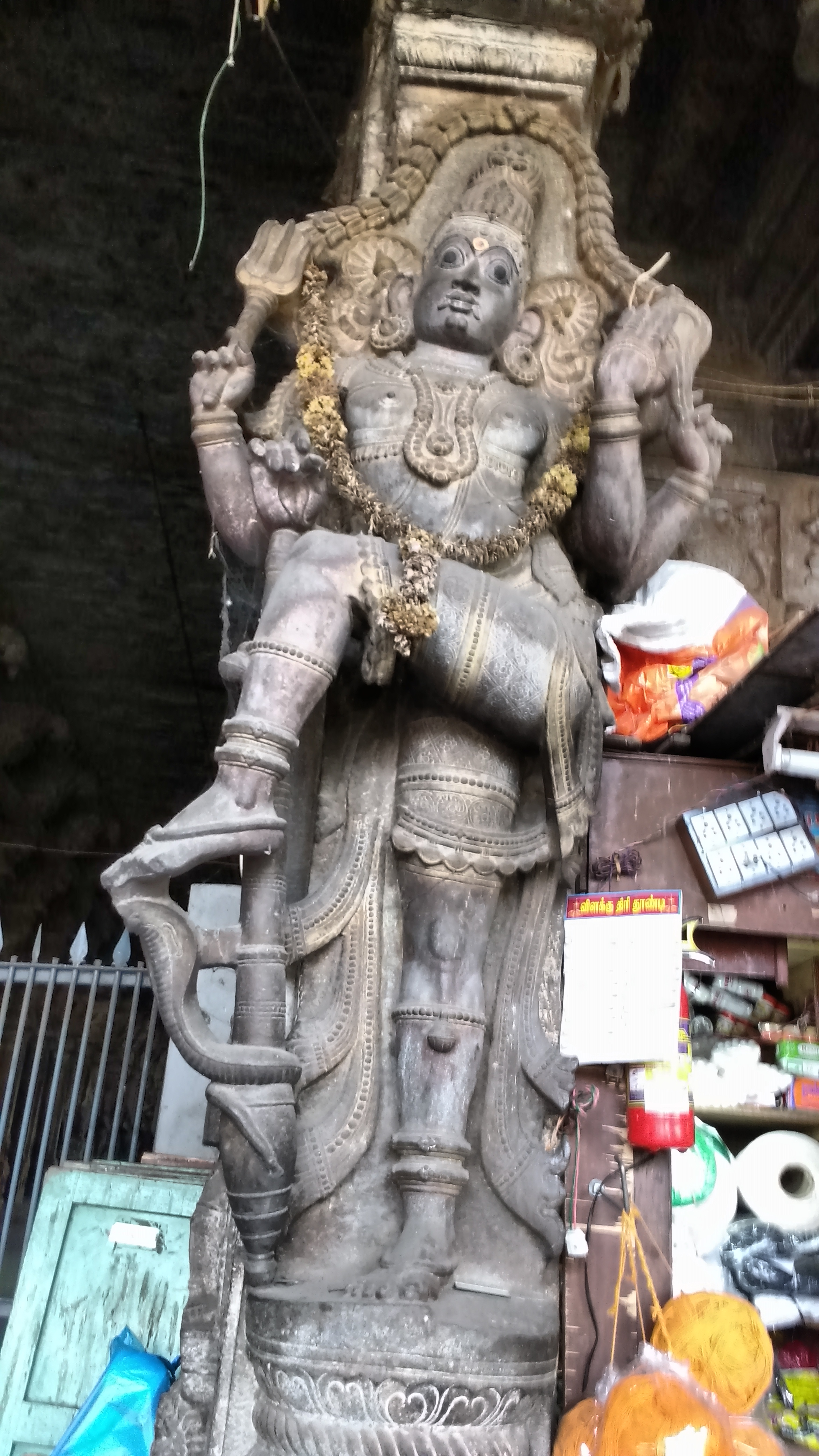 Hindu Deity